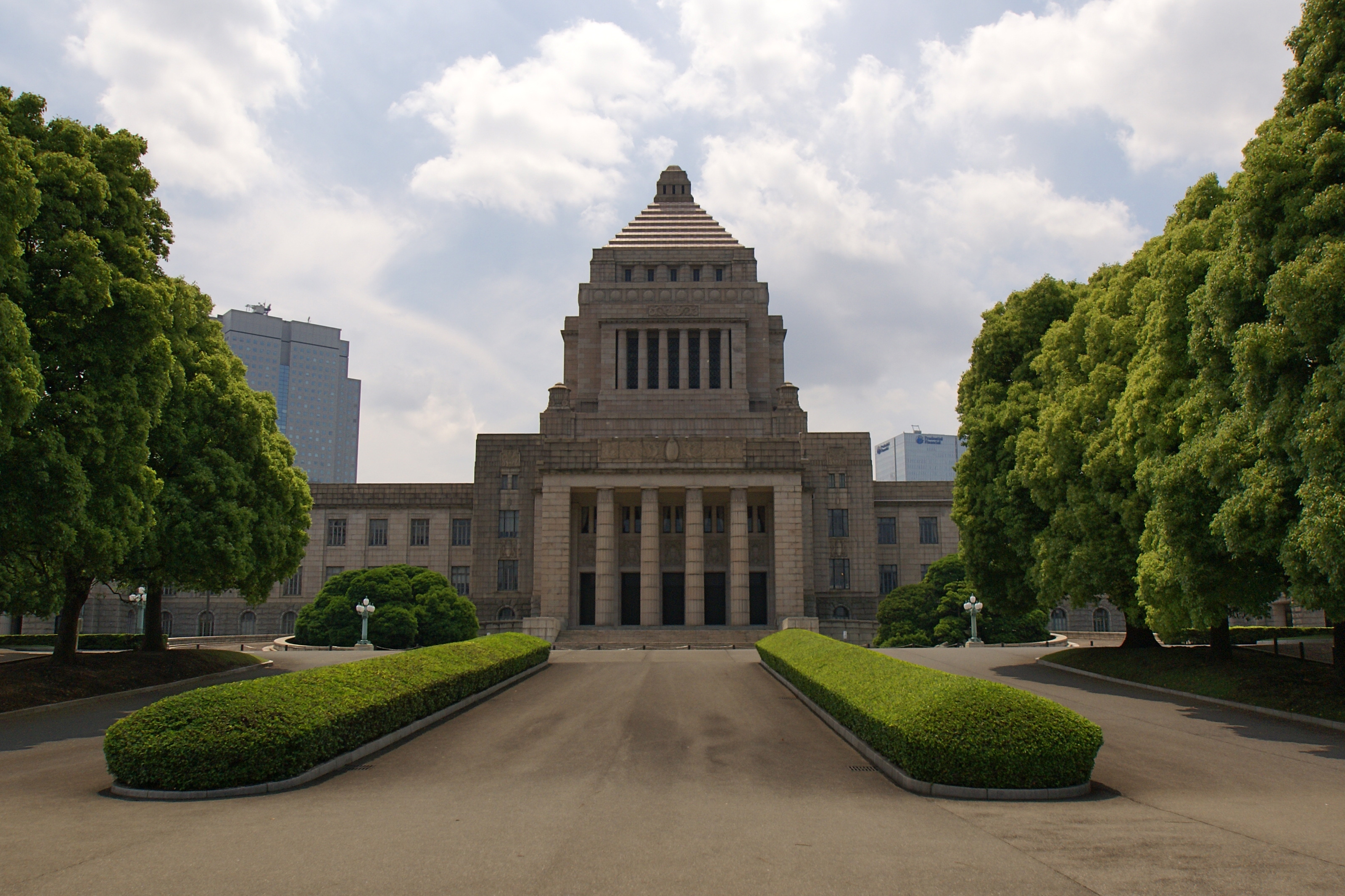 National Diet Building of Japan in Chiyoda-ku, Tokyo, Japan